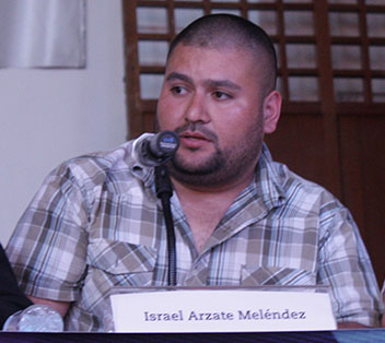 A picture of Israel Arzate Meléndez during a press conference.